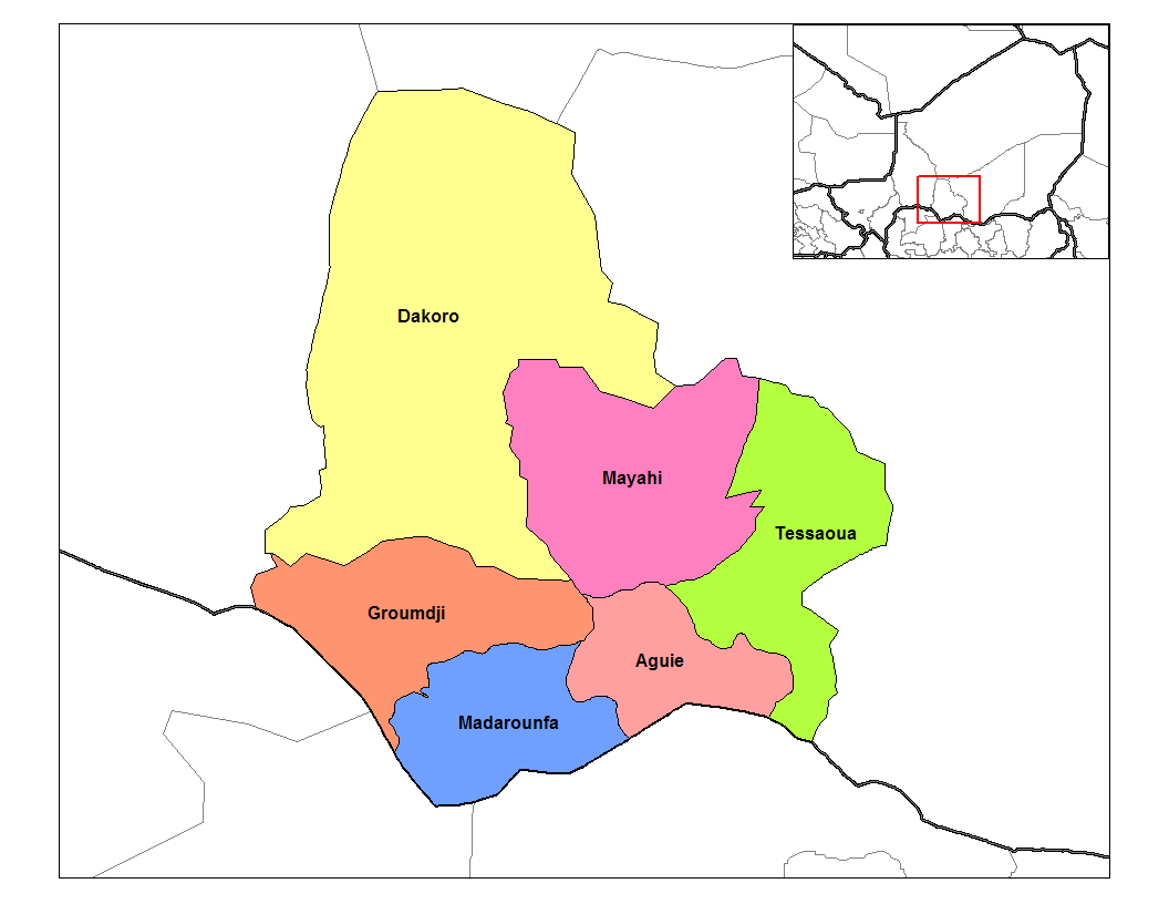 Map of the arrondissements of Maradi department in Niger. Created by Rarelibra 16:30, 13 September 2006 (UTC) for public domain use, using MapInfo Professional v8.5 and various mapping resources.